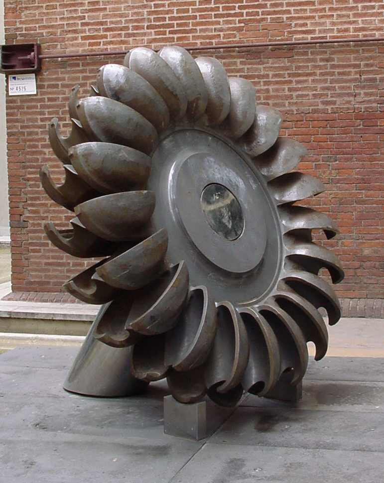 Pelton wheel hydro-electric turbine. Retired from service and now displayed as public sculpture at an old power station site, Barcelona